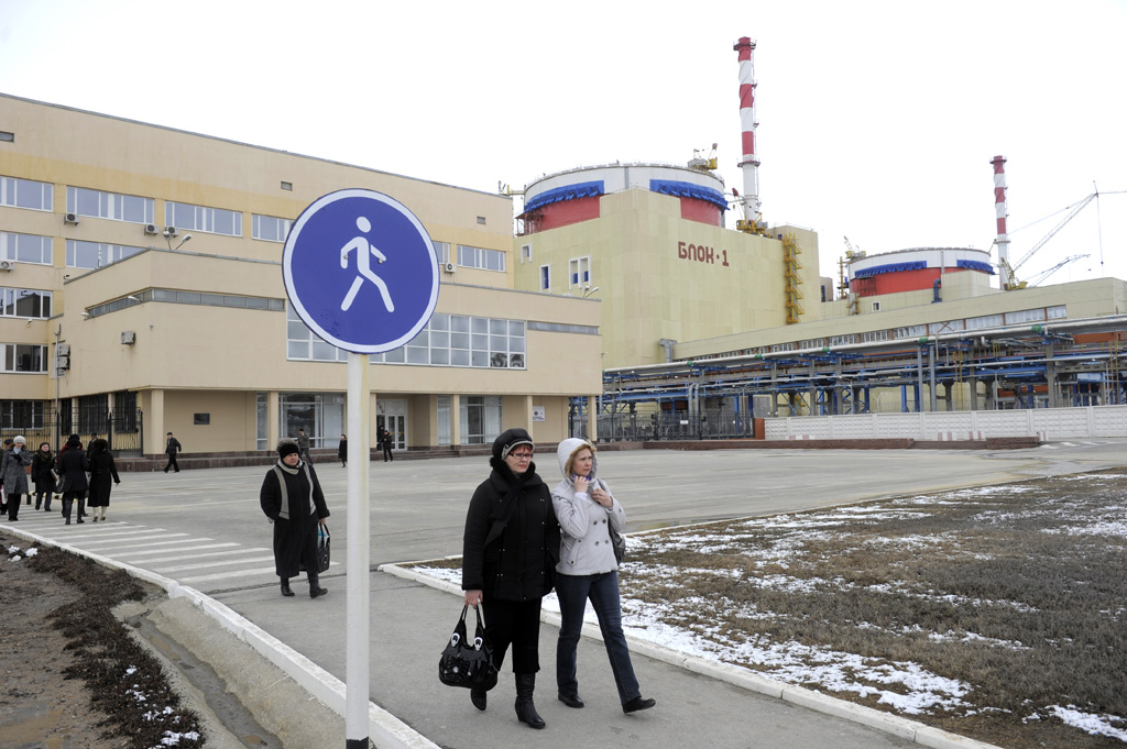 “Work at Rostov nuclear power plant”. Employees of the Rostov nuclear power plant go to the bus stop after the shift change.